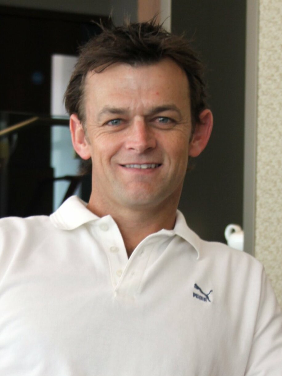 Adam Gilchrist, ex-Australian opening batsman and wicketkeeper